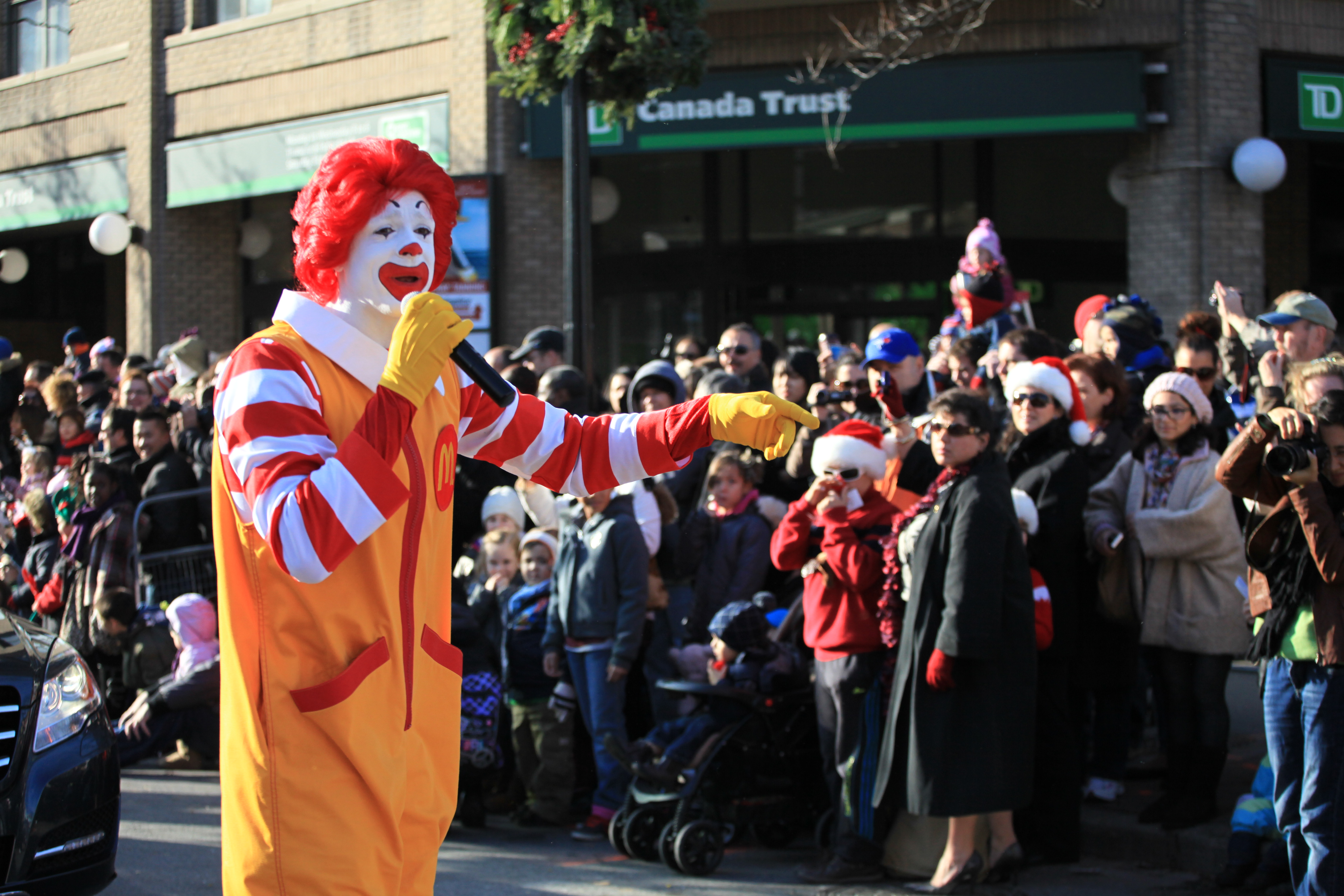 Photo by Lindsey Armstrong